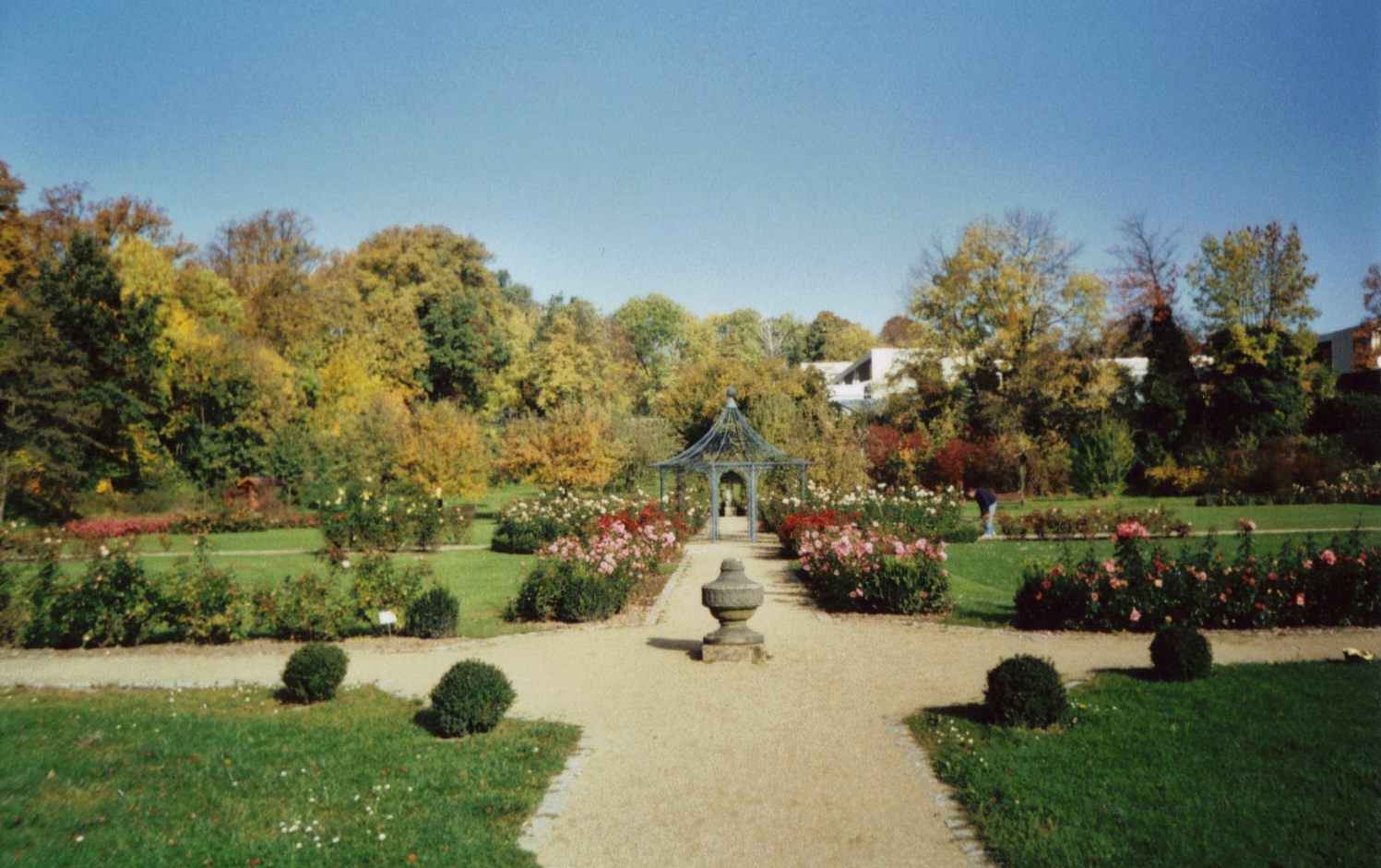 Hildesheim, Saint Magdalena's Garden, Main Path